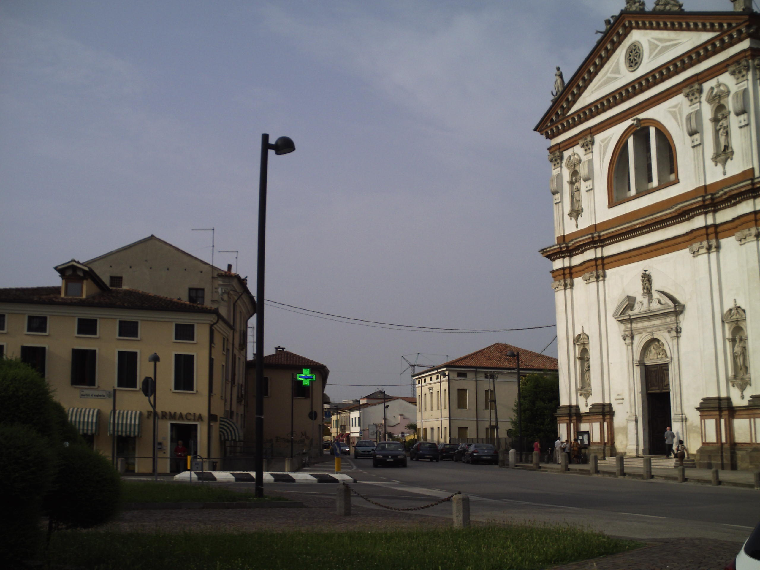 View of Tribano, Italy